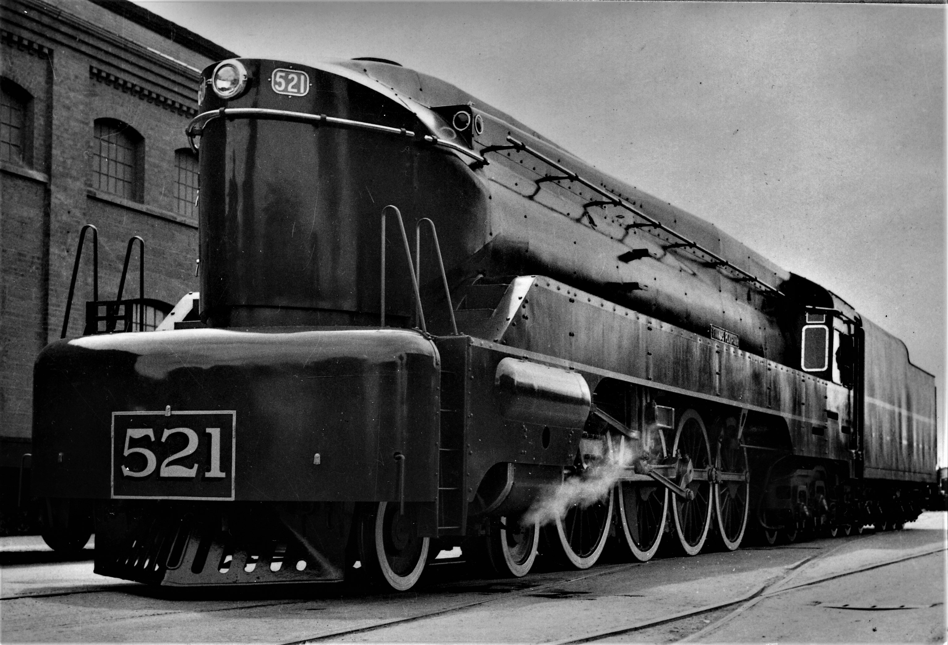 South Australian Railways 520 Class Locomotive No. 521 "Thomas Playford". Approximately 1944. State Library of South Australia B 58892 81.